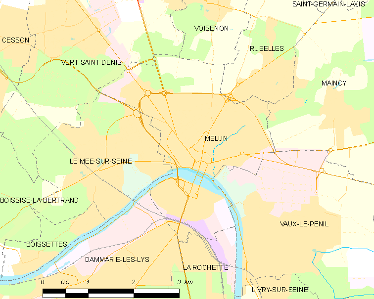 Map of French municipality Melun